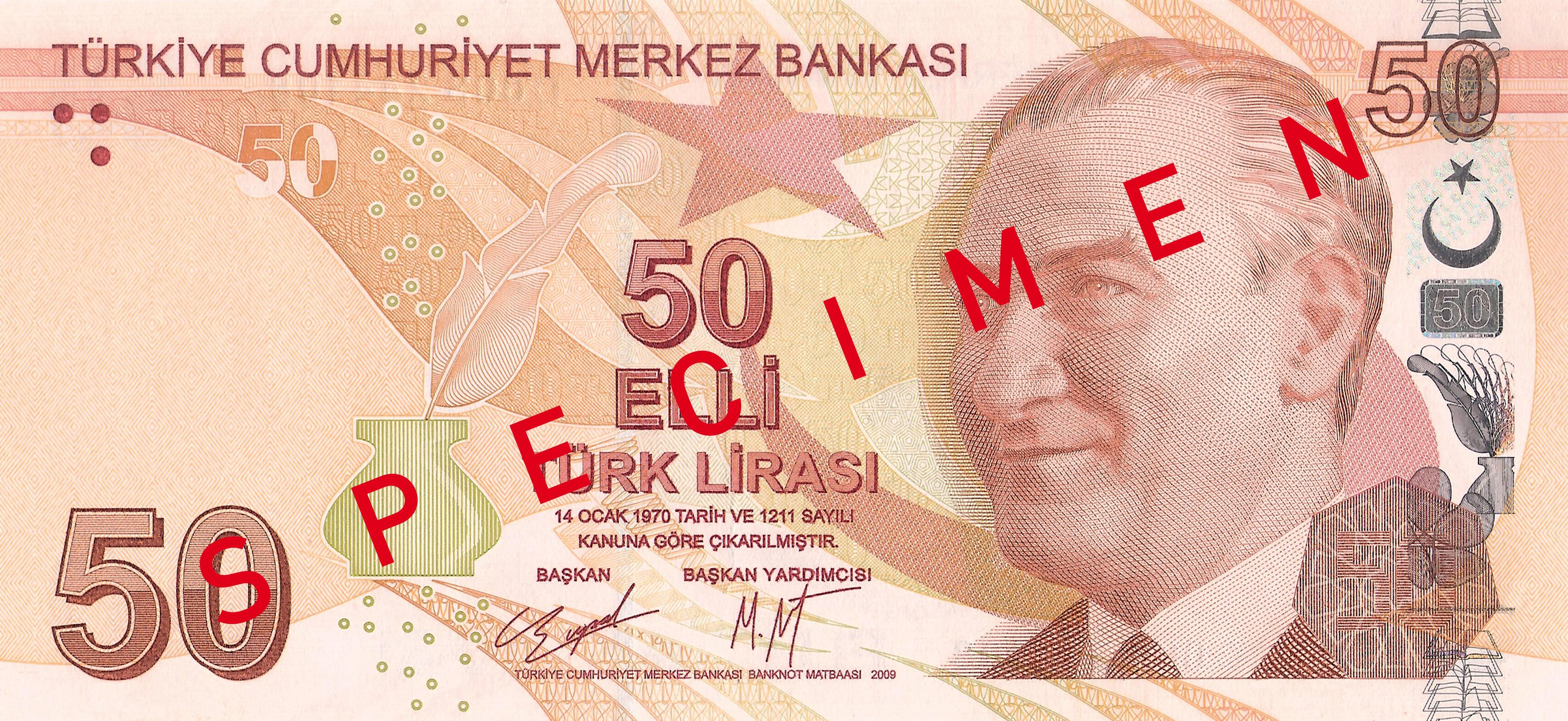 Front of 50 Turkish Lira